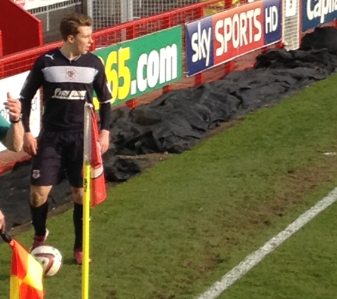 Luke Freeman of Stevenage taking a corner kick.